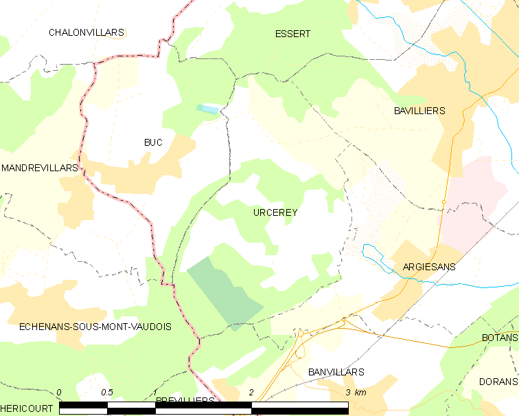 Map of French municipality Urcerey